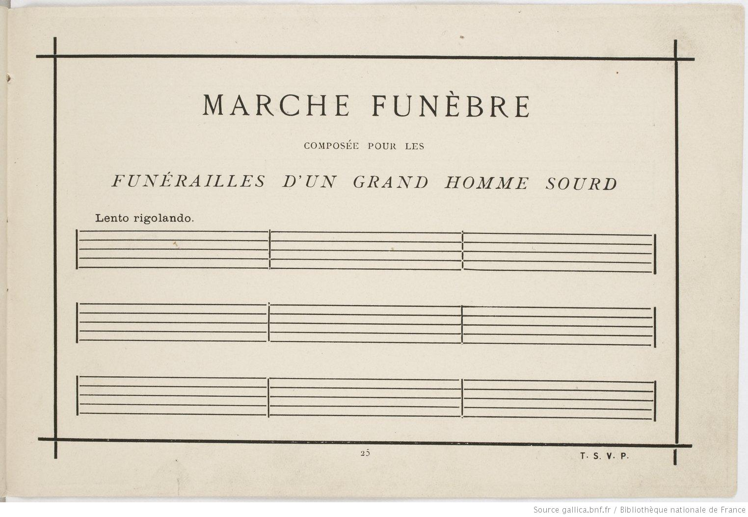 Marche funèbre composée pour les funérailles d'un grand homme sourd (Funeral March for the Obsequies of a Deaf Man) by Alphonse Allais, from his Album primo-avrilesque.